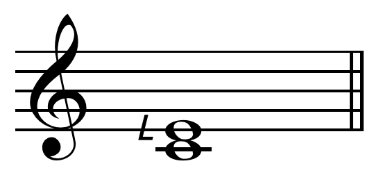 Septimal major third on C = E (Ben Johnston's notation). 9:7 = 435.08 cents. Limit: 7-limit.